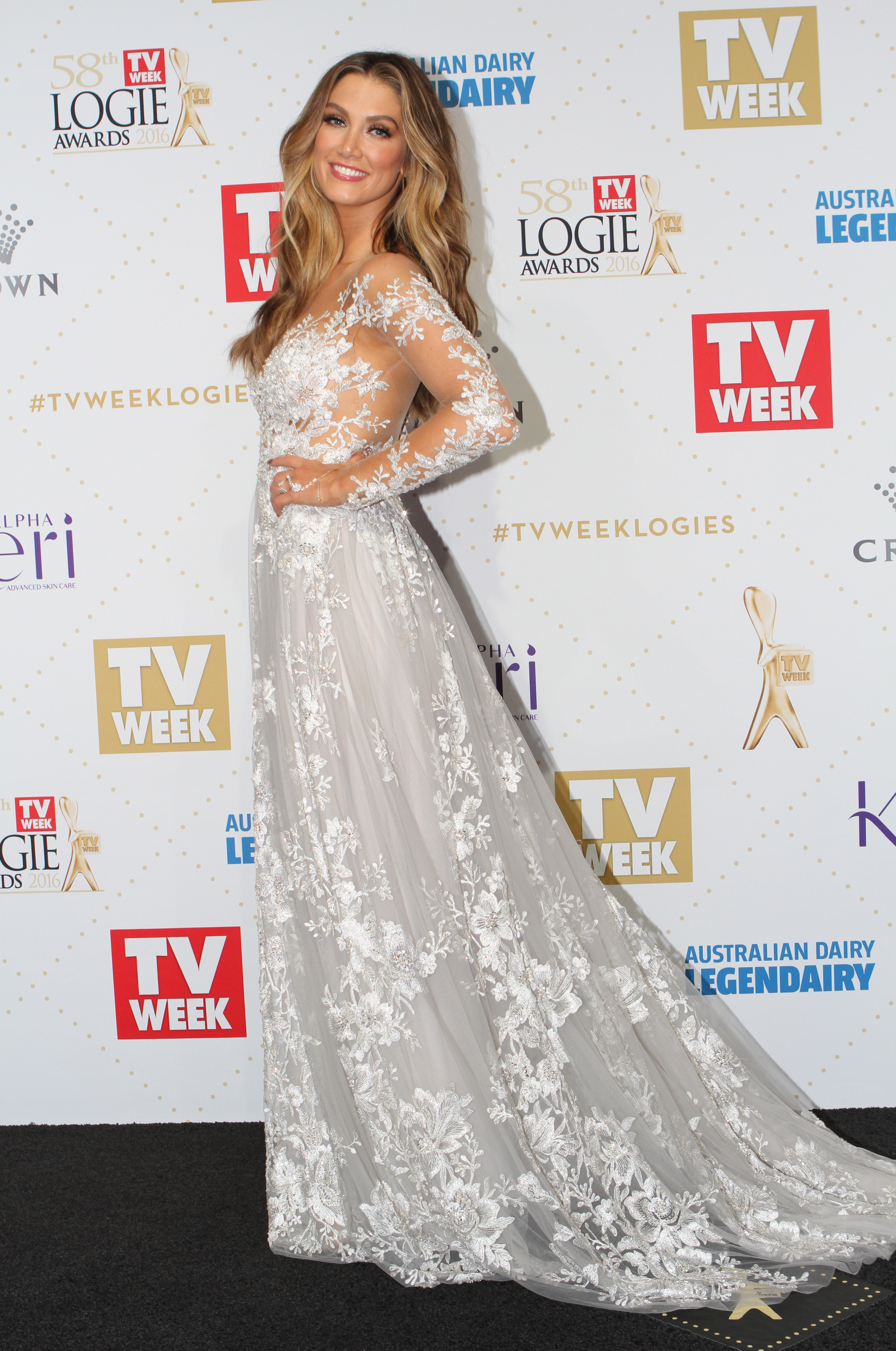 Delta Goodrem arrives at the 58th Annual Logie Awards at Crown Palladium